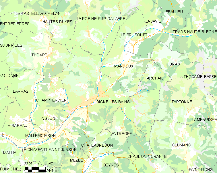 Map commune FR insee code 04070.png Légende